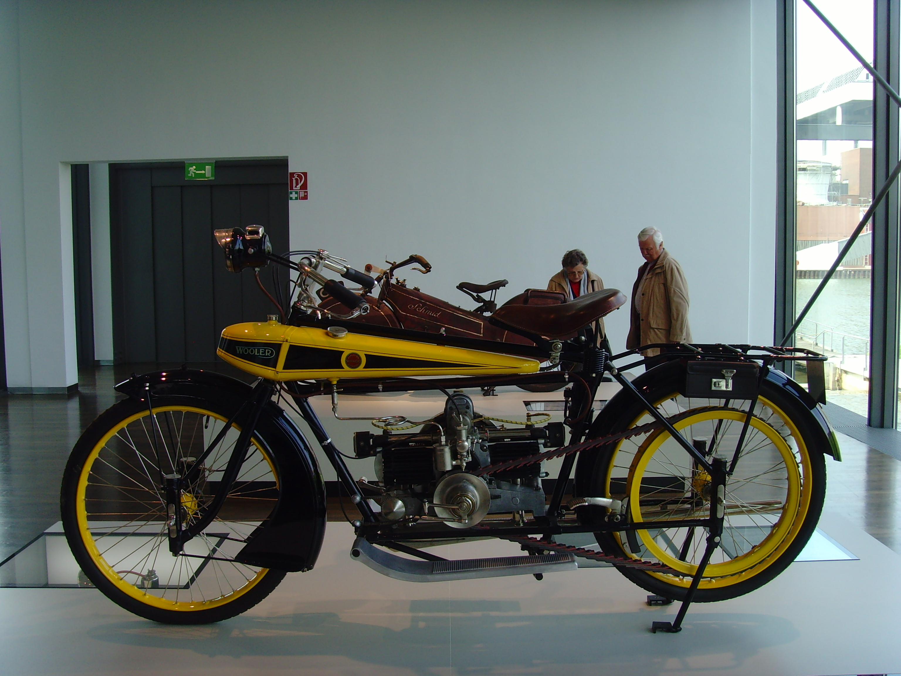 1919 Wooler motorcycle, made in Ruislip, Middlesex